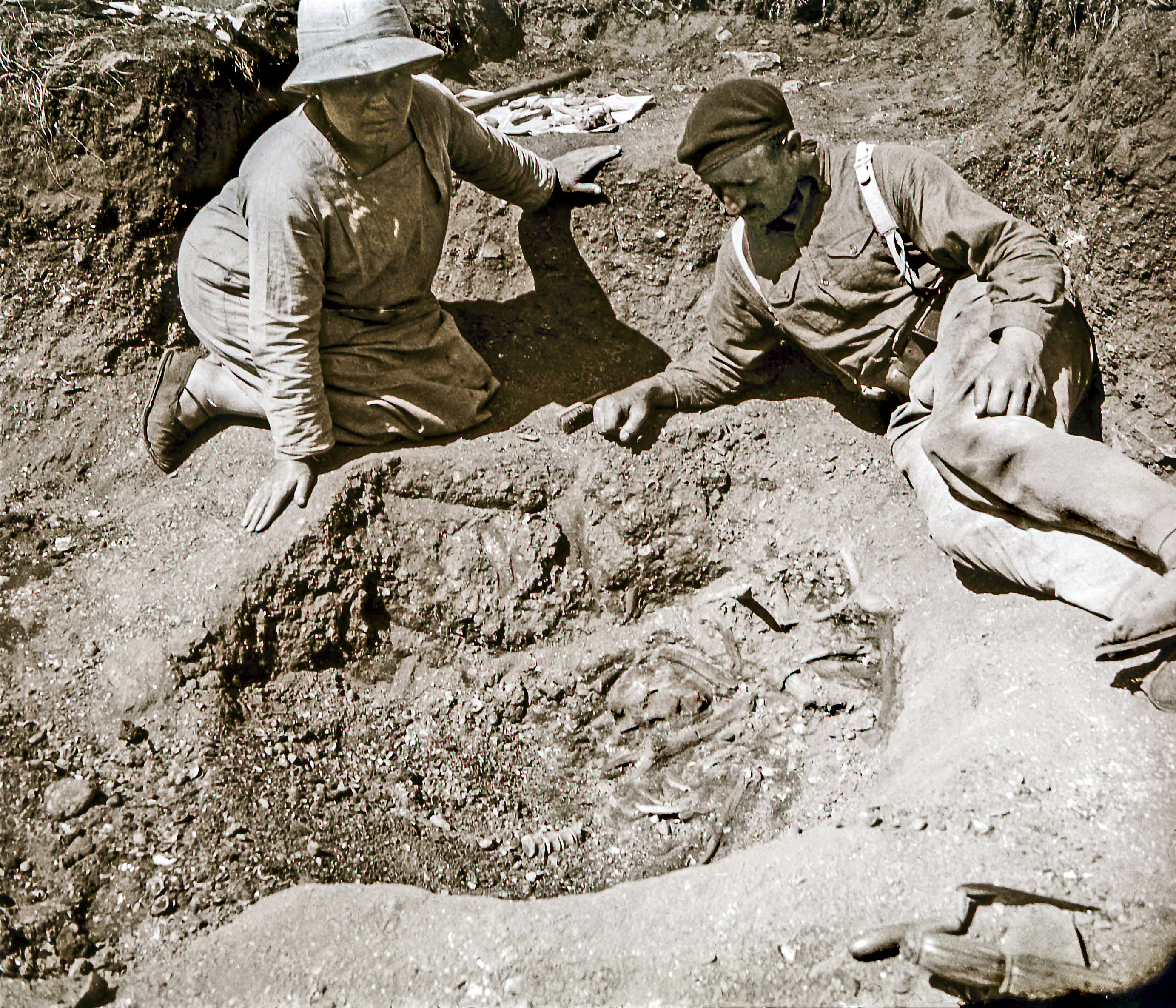 Marthe and Saint-Just Péquart - Beginning of the release in 1928 of the tomb of Téviec. Silver gelatin dry plate negative. 6 × 13 cm (2.3 × 5.1 in) Handwritten inscription on the negative plate "Téviec - early release" Source: Library and Documentation Service Museum of Toulouse